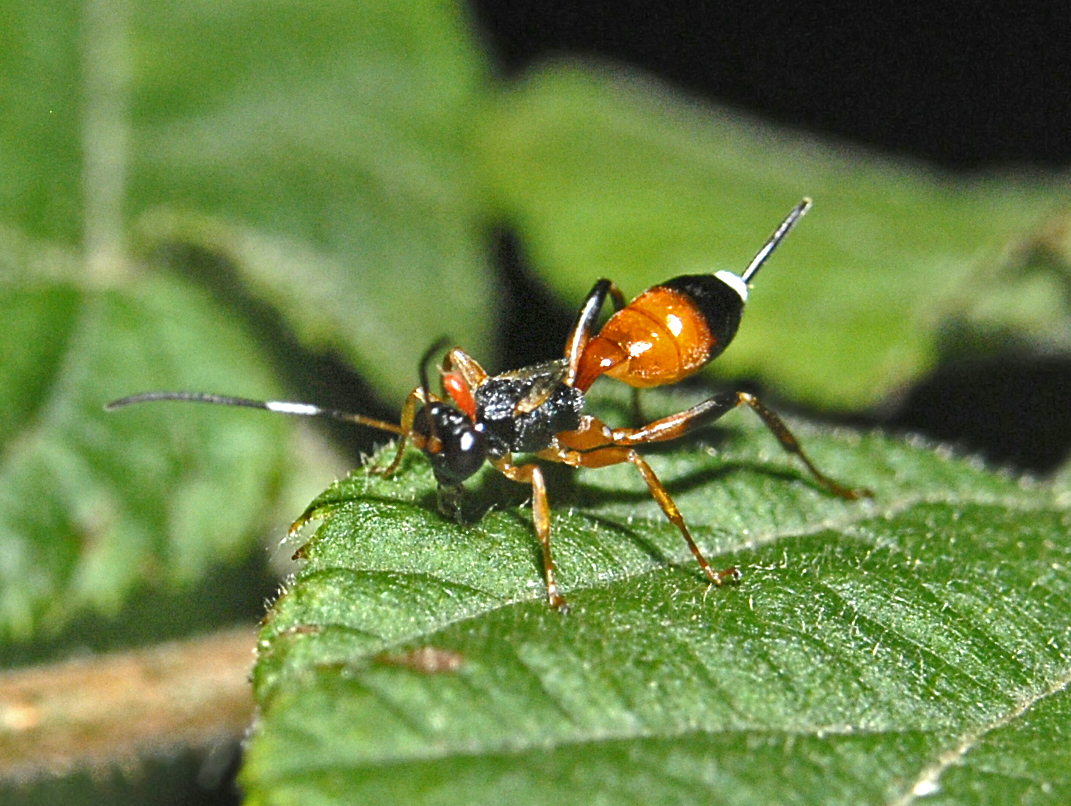 Female of Agrothereutes abbreviatus. Passo del Faiallo, Genova, Italy